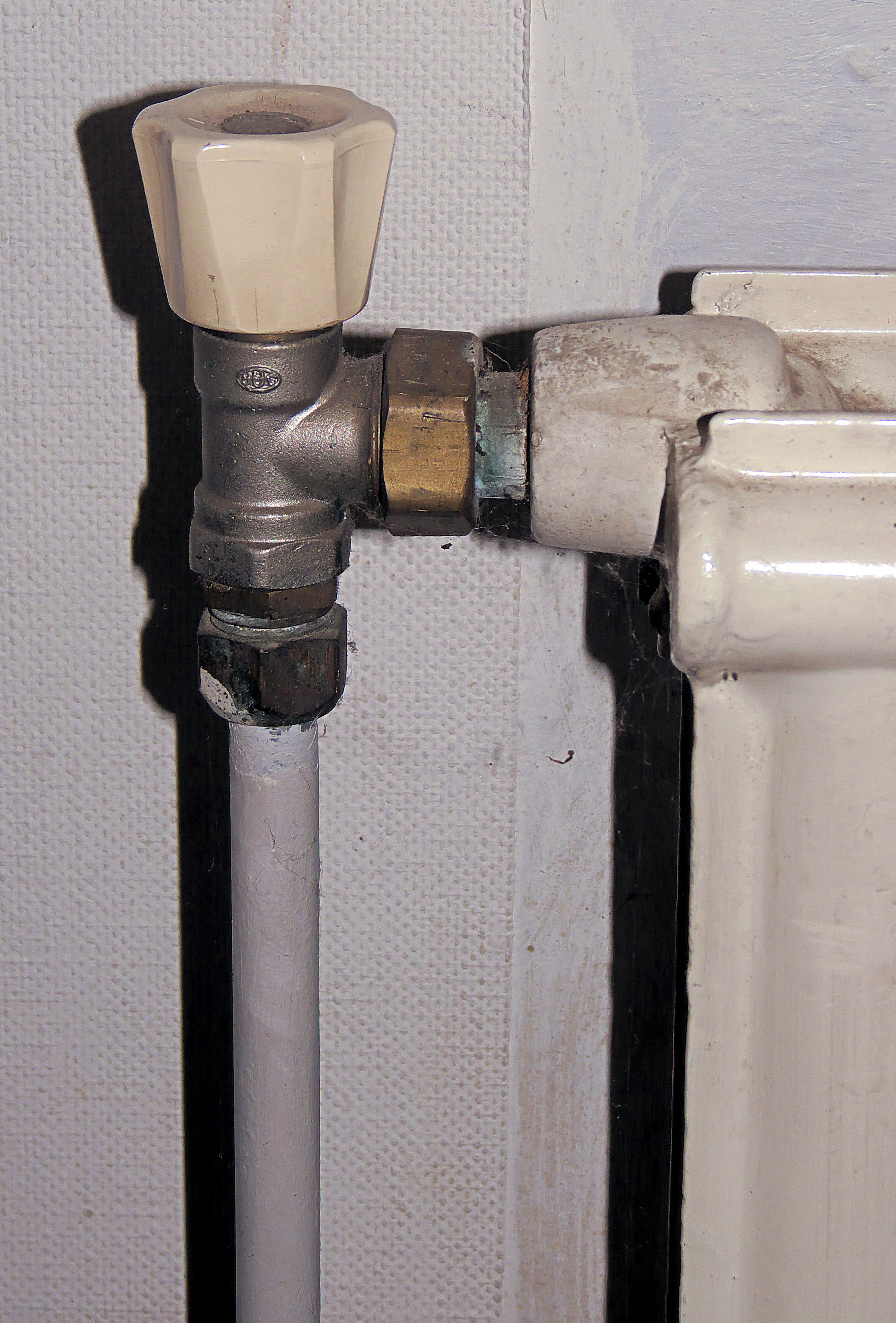 Radiator valve